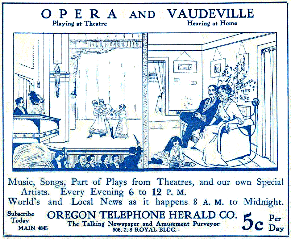 Advertisement soliciting subscribers to the Oregon Telephone Herald entertainment system